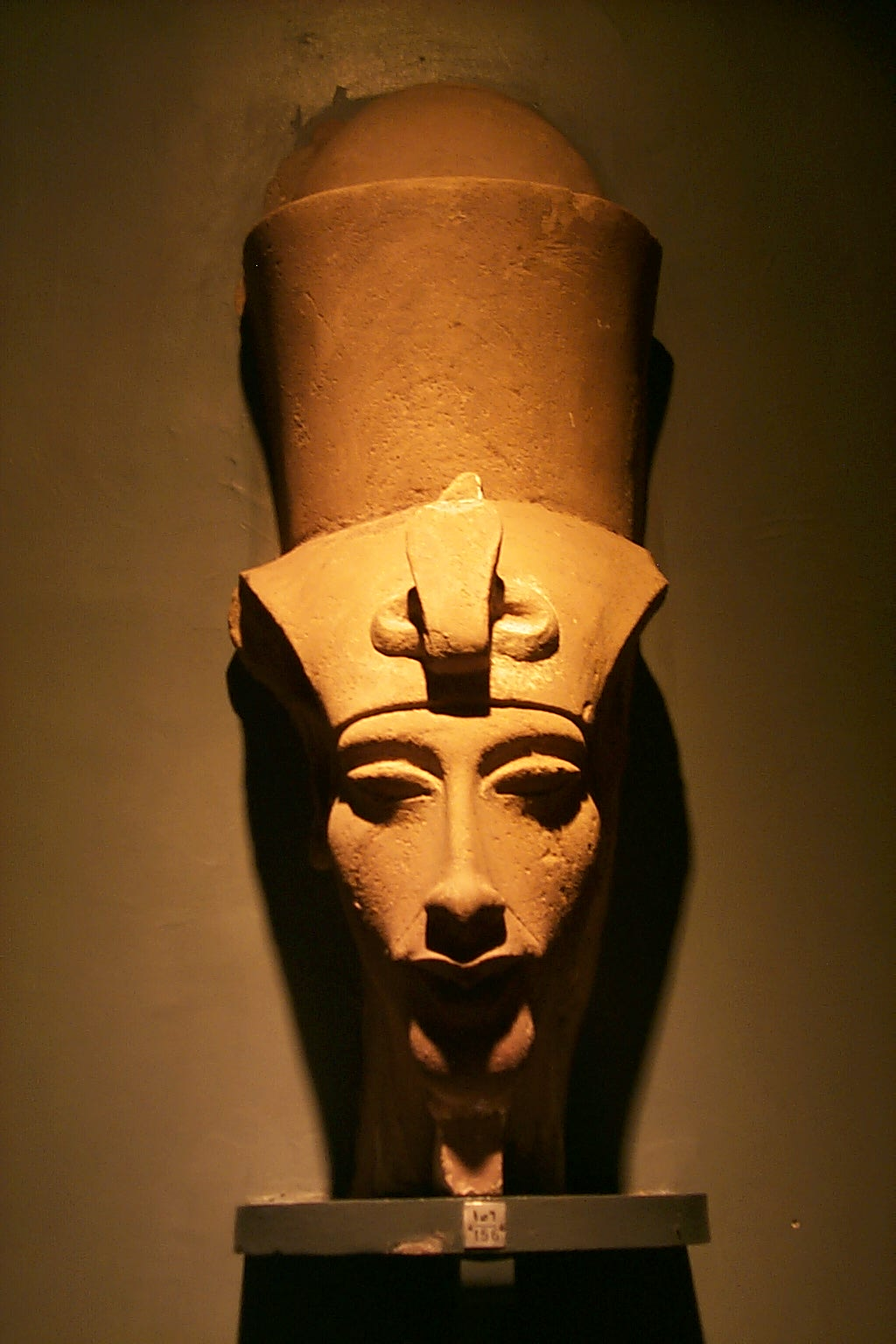 A Bust of Amenhotep IV/Akhenaten in the Luxor Museum, Egypt.